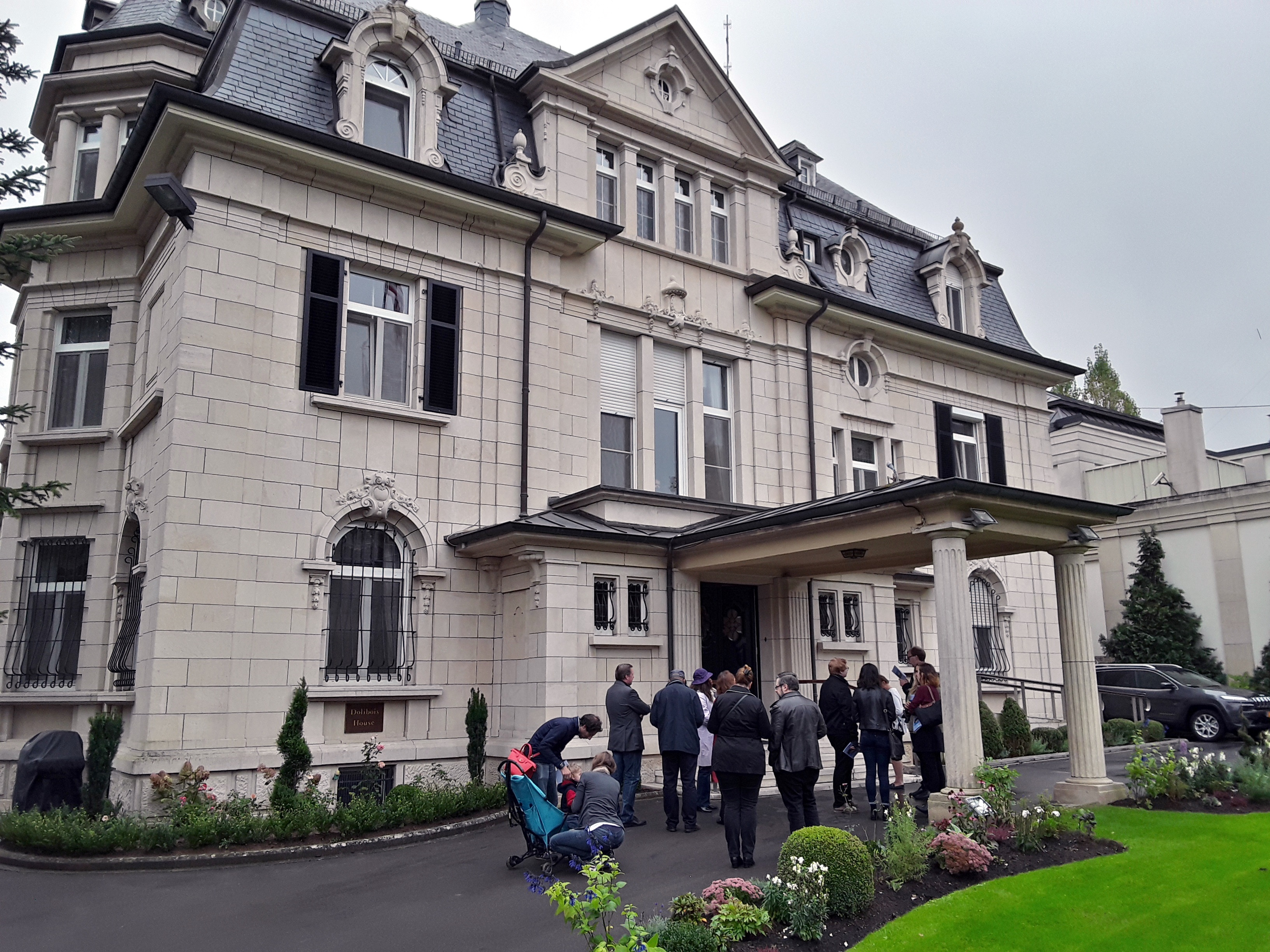 Embassy of the United States in Luxembourg - the Ambassador's Residence